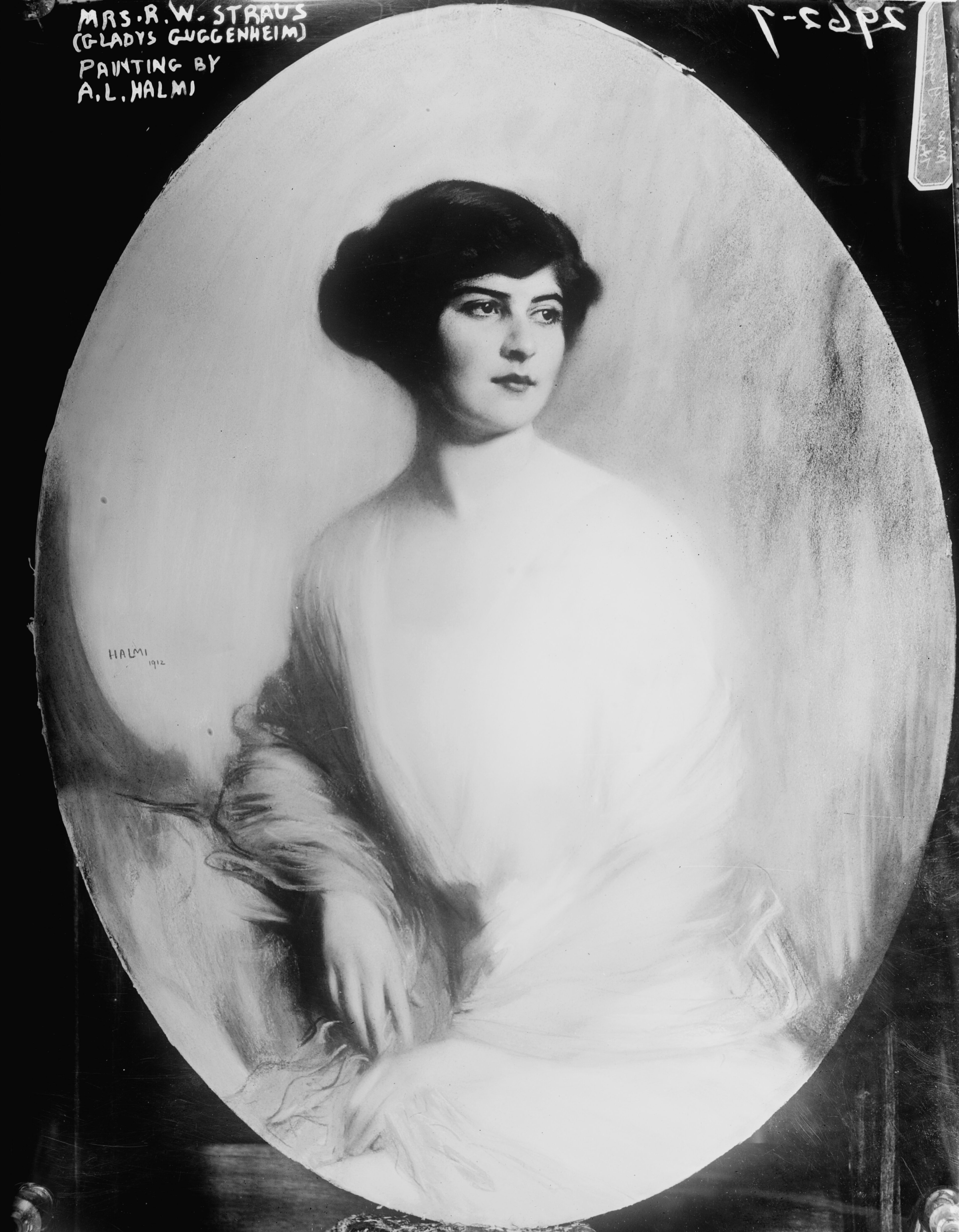 Bain News Service,, publisher. Gladys Eleanor Guggenheim Straus painting by A. L. Halmi [between ca. 1910 and ca. 1915] 1 negative : glass ; 5 x 7 in. or smaller. Notes: Title from unverified data provided by the Bain News Service on the negatives or caption cards. Forms part of: George Grantham Bain Collection (Library of Congress). Format: Glass negatives. Repository: Library of Congress, Prints and Photographs Division, Washington, D.C. 20540 USA, General information about the Bain Collection is available at Persistent URL: Call Number: LC-B2- 2962-7